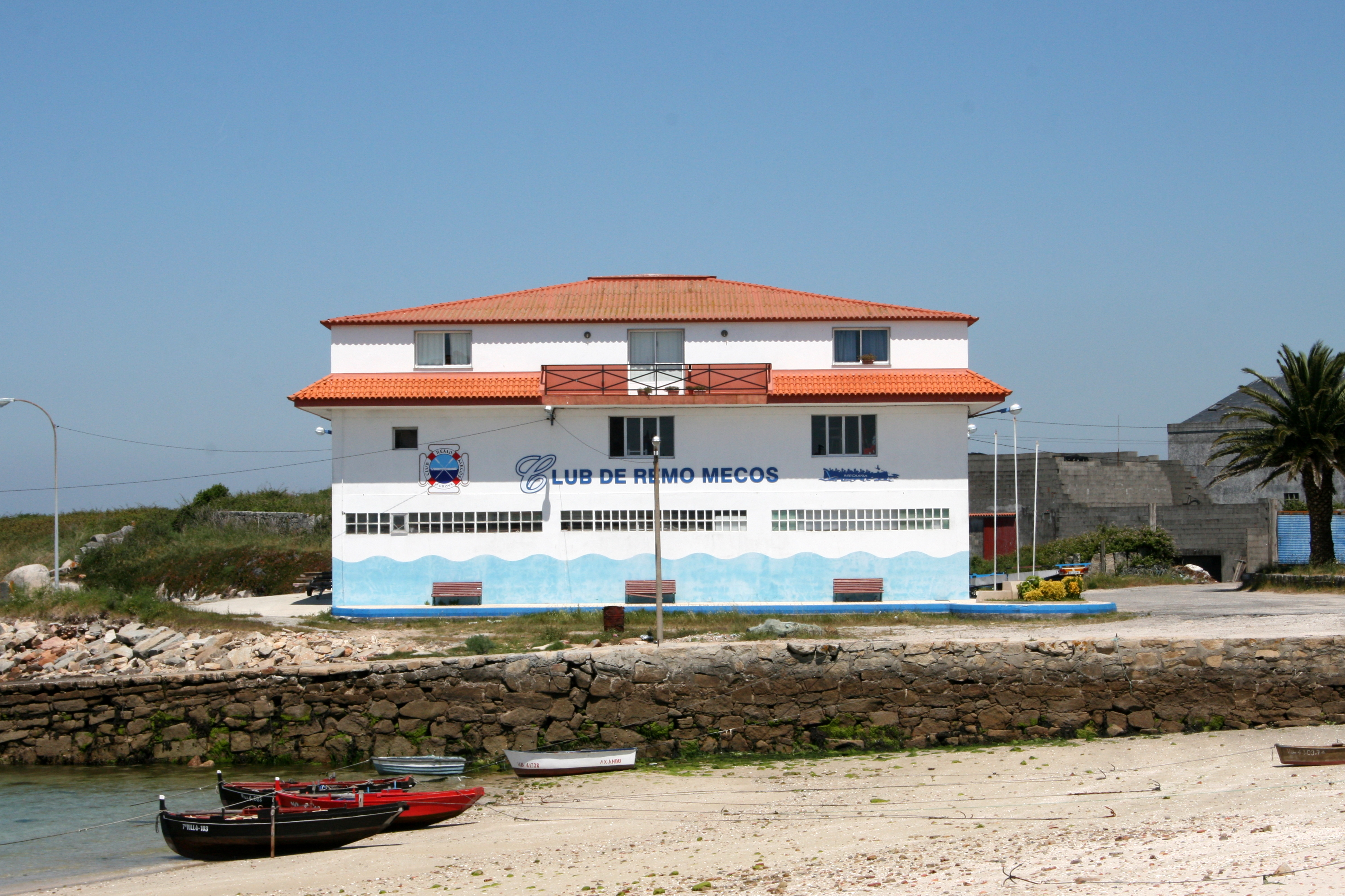 Building of the rowing club Mecos, in O Grove, Galicia (Spain).